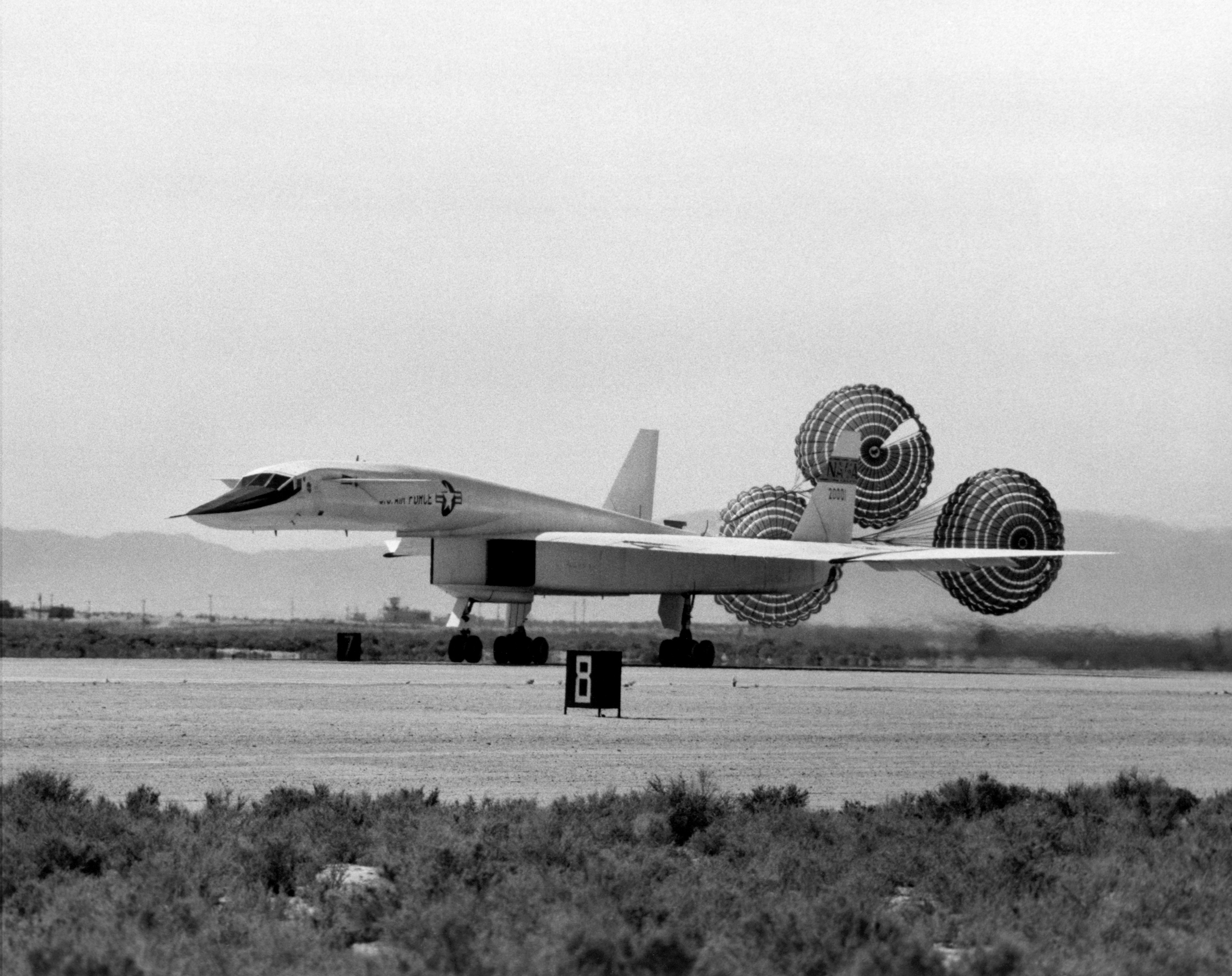 This photo shows the XB-70A #1 rolling out after landing, employing drag chutes to slow down. In the photo, the outer wing panels are slightly raised. When the XB-70 was flying at high speed, the panels were lowered to improve stability.